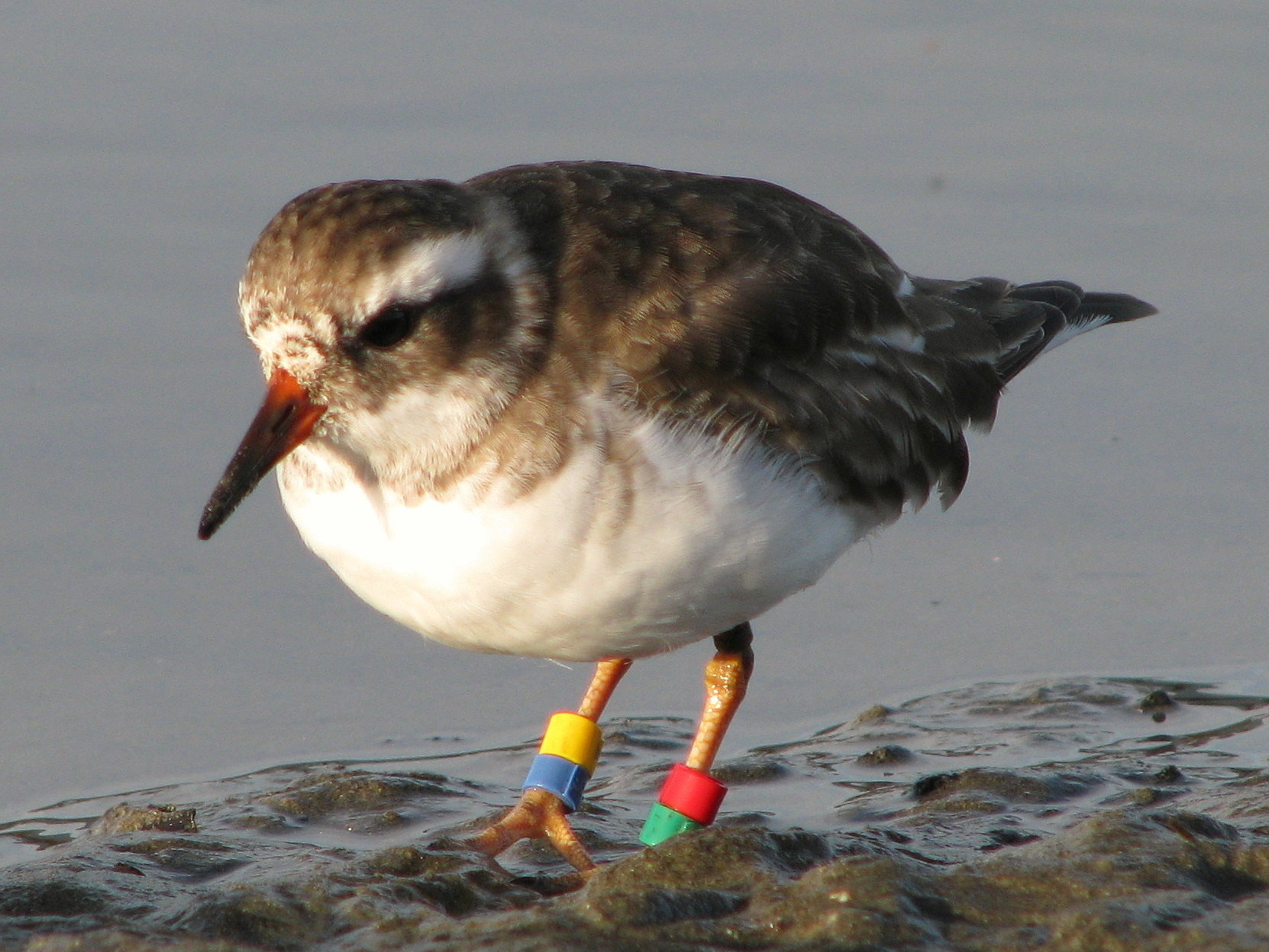 Juvenile Shore Plover at Waikanae river estuary